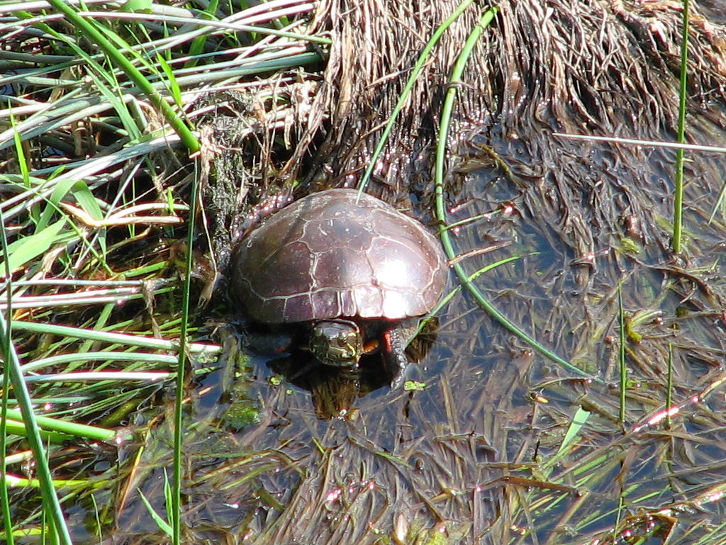 Midland Painted Turtle (Chrysemys picta marginata), Rideau River, Ottawa, Ontario